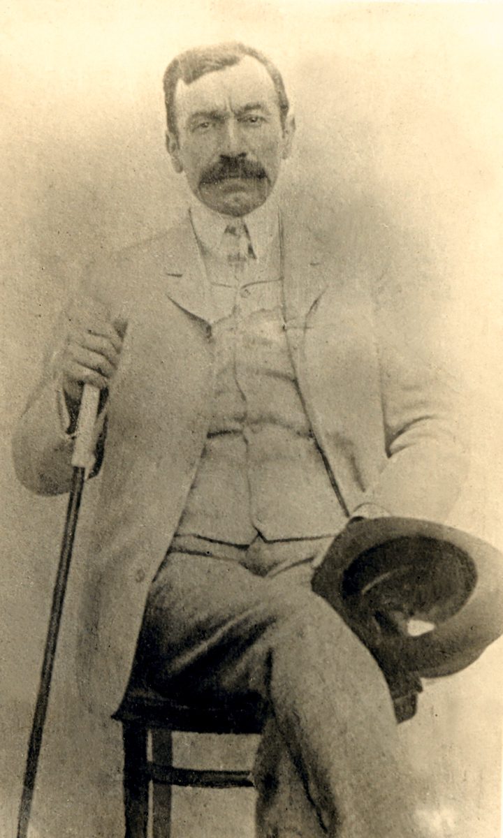 Jahangir Zeynalov, Azerbaijani actor of theatre